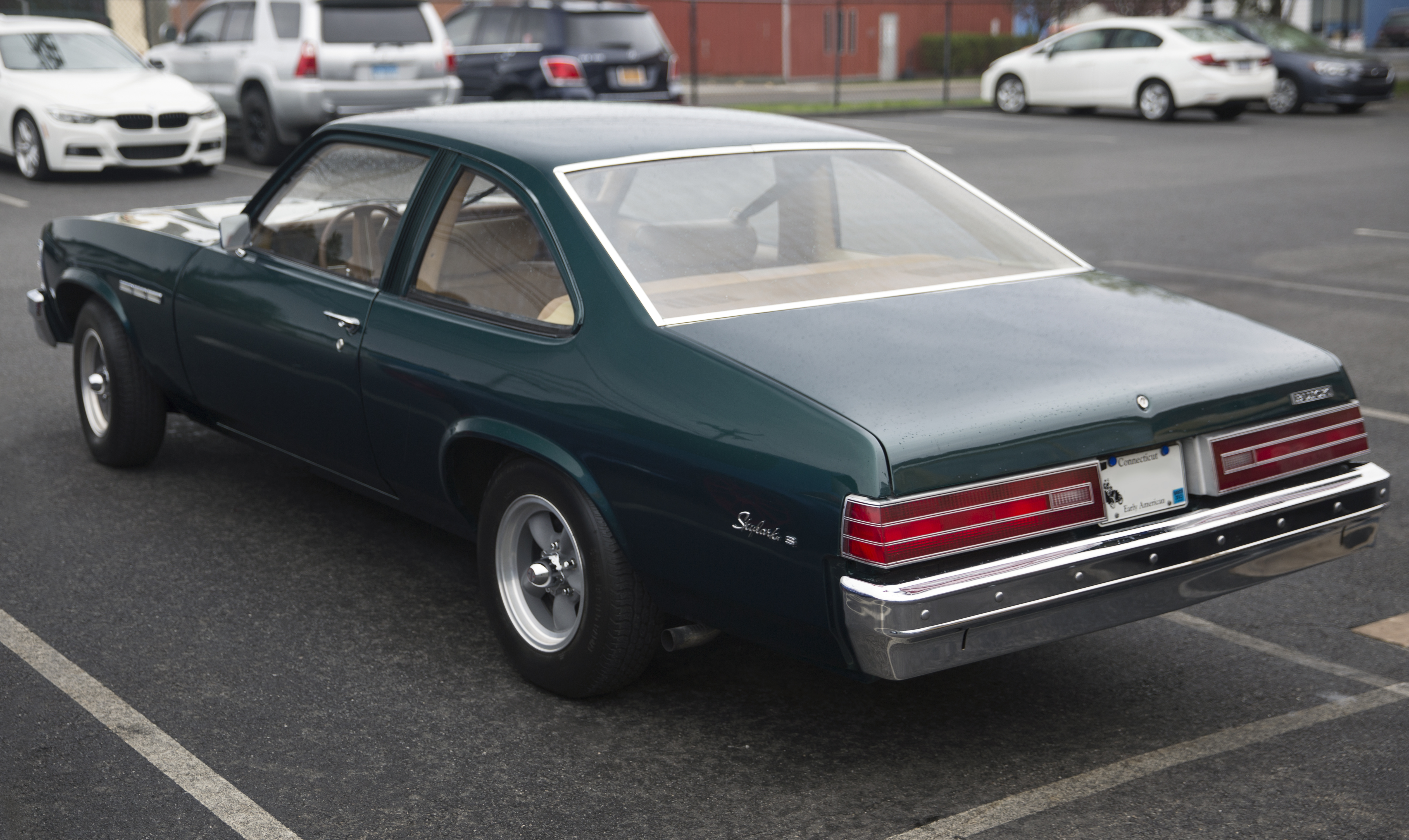 A 1977 Buick Skylark S at a "Pints & Pistons" event in Stratford, CT. The "S" was the bare-bones version, only available in this 2-door bodystyle and here with the base 231cuin V6 (3.8 liters) with one two-barrel carb and... wait for it... 110hp. Assembled in nearby Tarrytown, NY.